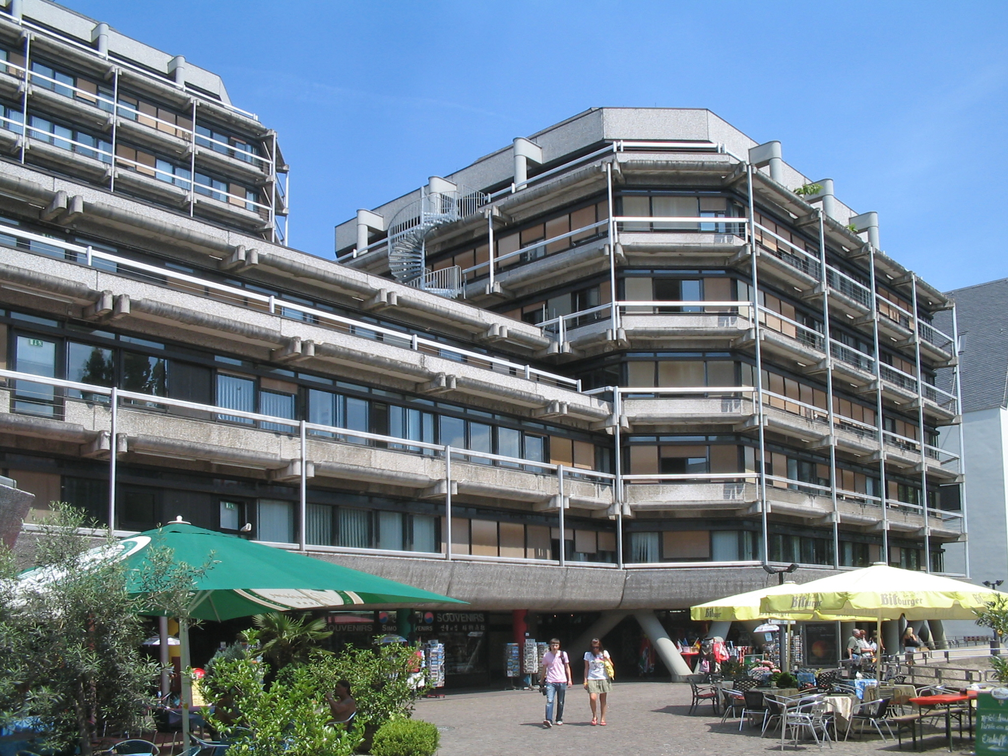 Summer leisure at "Technisches Rathaus" in Frankfurt am Main, GErmany